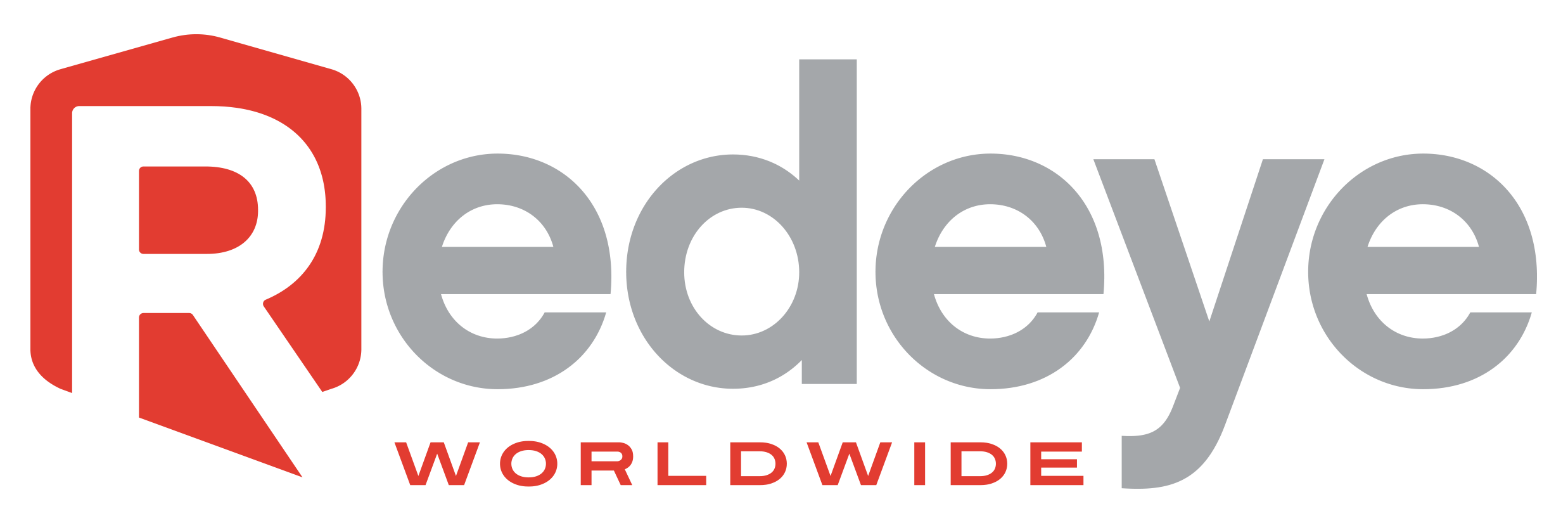 Redeye Worldwide Logo